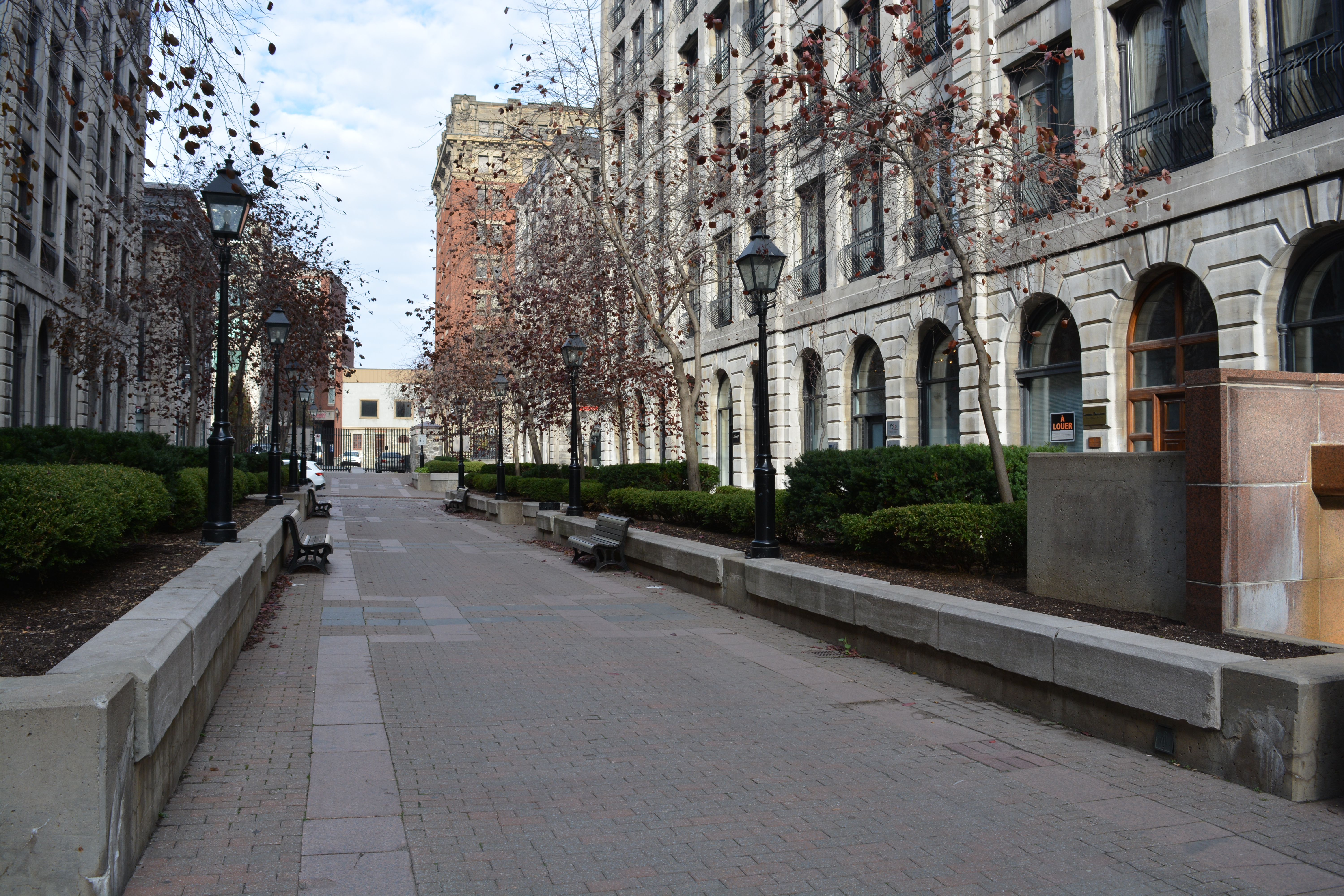 ico-D Secretariat, 50 Le Royer, Montreal (Canada)